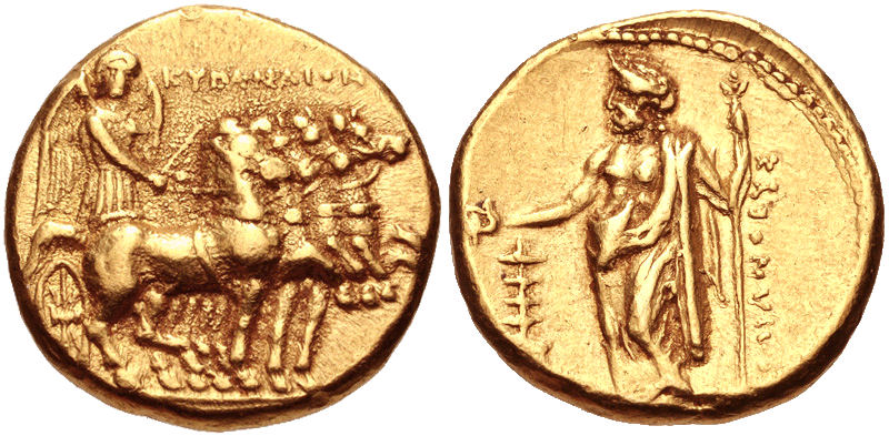 Ophellas, as Ptolemaic governor, first reign, circa 322-313 BC. AV Stater (17mm, 8.57 g, 11h). Polianthes, magistrate. Nike, driving fast quadriga right, holding kentron and reins / Zeus Ammon standing left, holding patera and lotus-tipped scepter; thymiaterion to left, [Π]OΛIANΘEYΣ to right. Naville 104 (same dies); Mørkholm, Cyrene, p. 151, no. 23; SNG Copenhagen 1210; BMC 122 (same obv. die); SNG Fitzwilliam 1856 (same dies). Good VF, light die rust on the obverse.